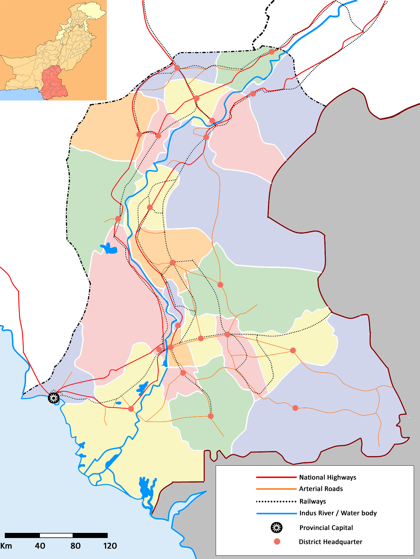 Map of Sindh Province of Pakistan indicating National Highways, Arterial Roads, Railways, District Headquarters and Provincial Headquarter.